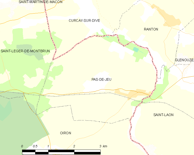 Map of French municipality Pas-de-Jeu